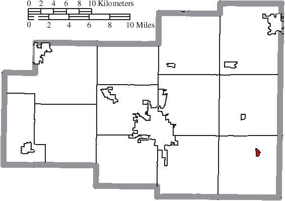 Map of the municipal and township boundaries of Allen County, Ohio, United States, as of the 2000 census, with the location of the village of Harrod highlighted. Township borders are shown only in unincorporated areas in order to differentiate incorporated and unincorporated areas more clearly.